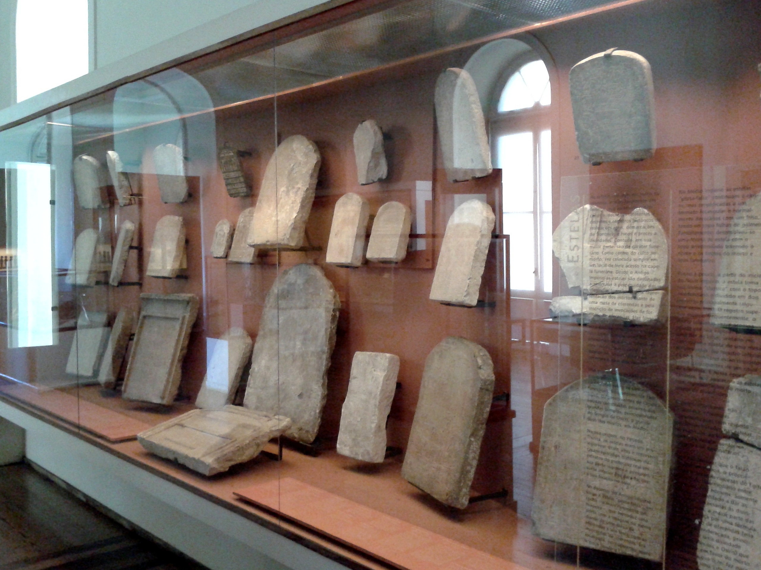 Collection of Ancient Egyptian steles of the National Museum of Brazil, in Rio de Janeiro.